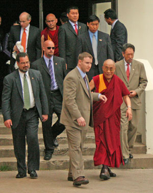 Diplomatic Security Special Agents escort the Dalai Lama from a speaking engagement at Rice University in Houston, TX, May 1, 2007